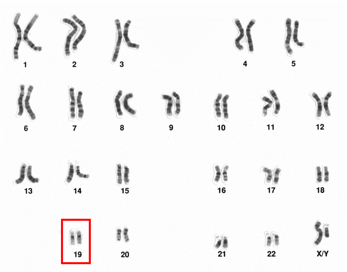 Human male Karyotype after G-banding. Chromosome 19 highlighted